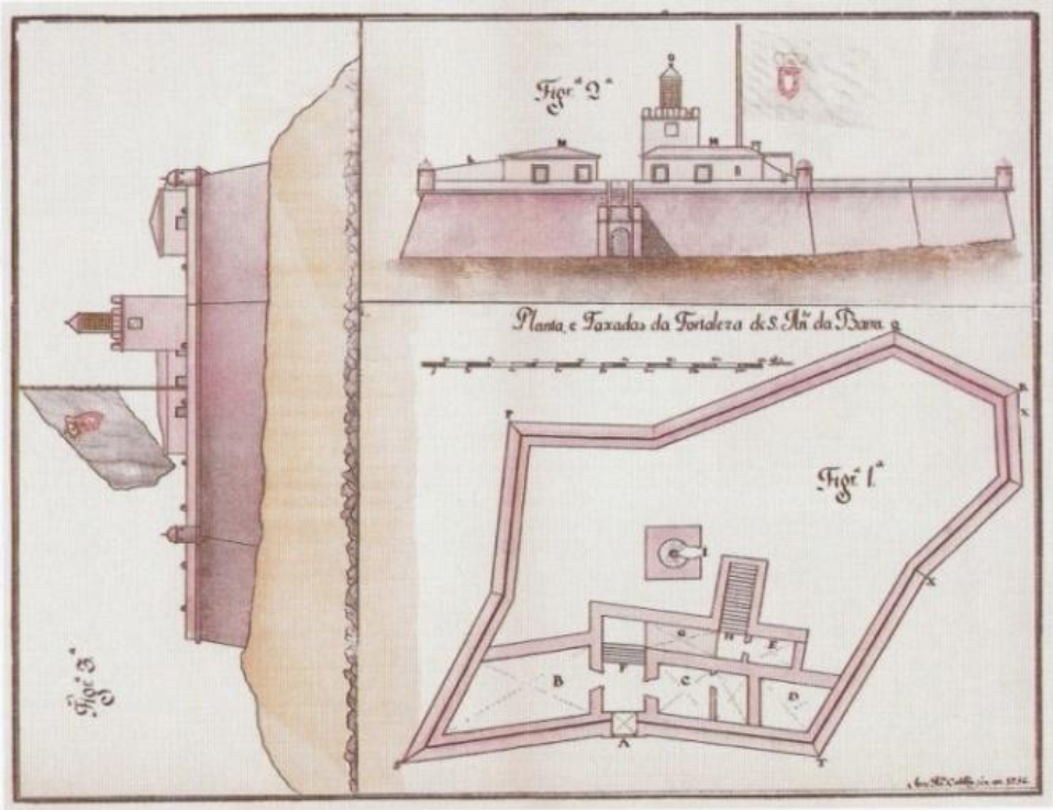 Drawing of Santo Antônio da Barra Fortress in Salvador, Bahia (c. 1759) by military engineer José Antônio Caldas